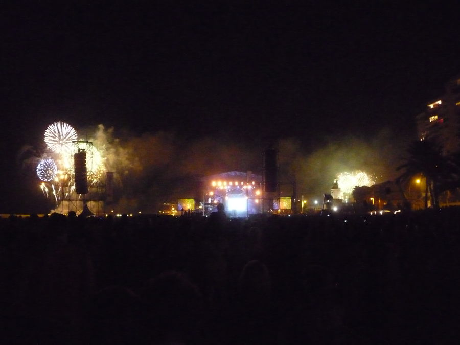 Feria-malaga-Openingparty_friday